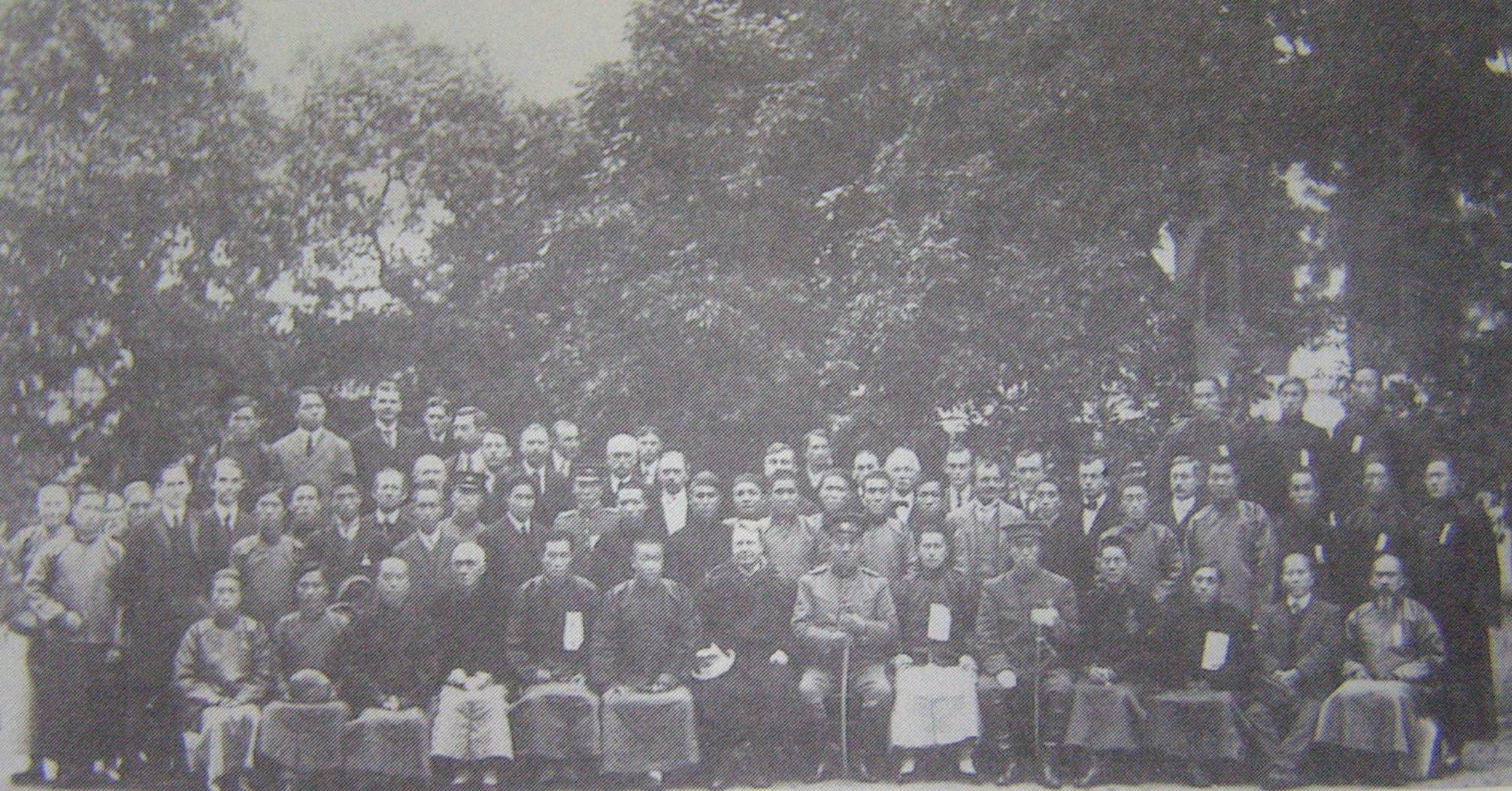 Fukien Military Government in Foochow, 1911 Mìng-dĕ̤ng-ngṳ̄: 1911 nièng Hók-gióng Gŭng-céng-hū diŏh Hók-ciŭ